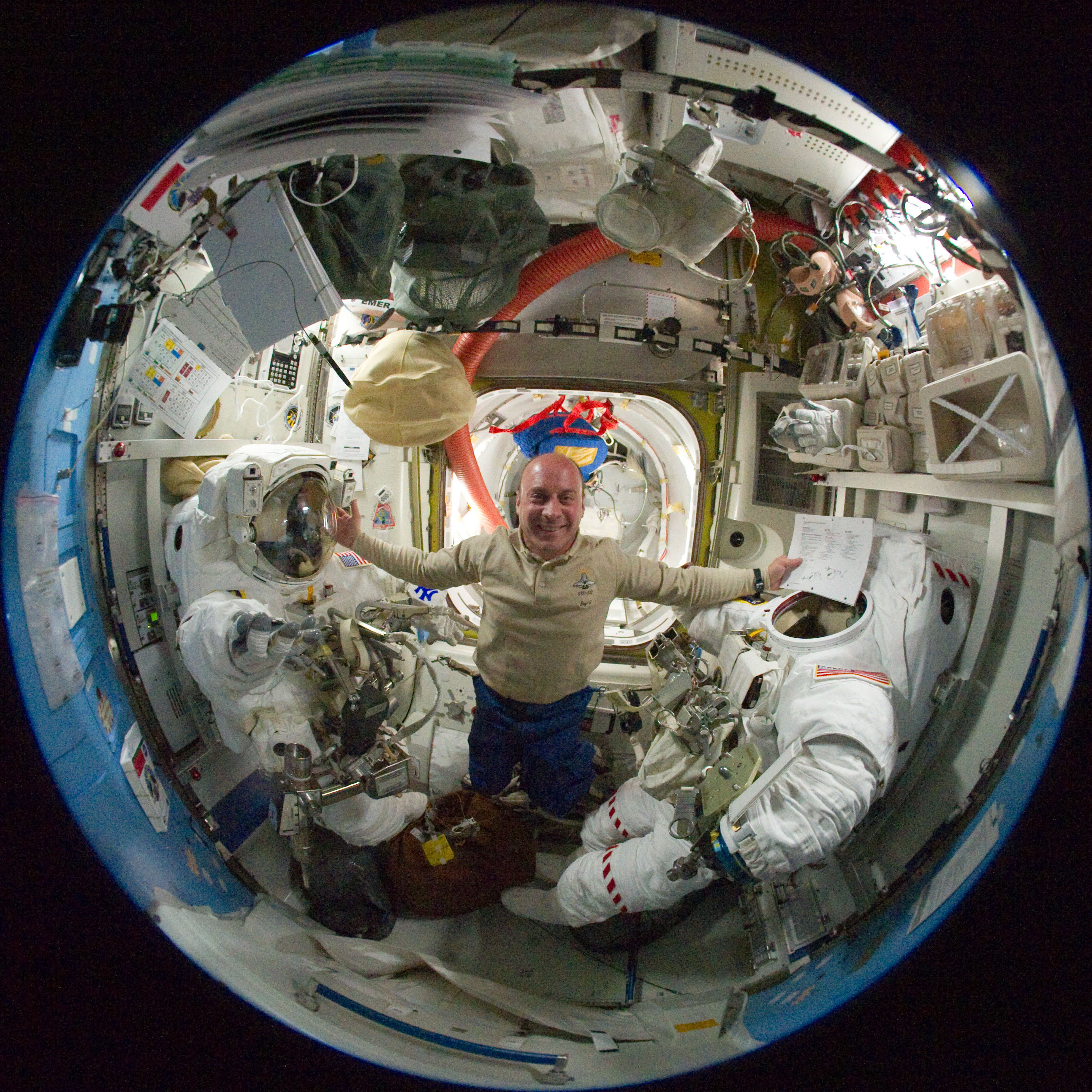 A fish-eye lens attached to an electronic still camera was used to capture this image of NASA astronaut Garrett Reisman, STS-132 mission specialist, in the Quest airlock of the International Space Station while space shuttle Atlantis remains docked with the station.